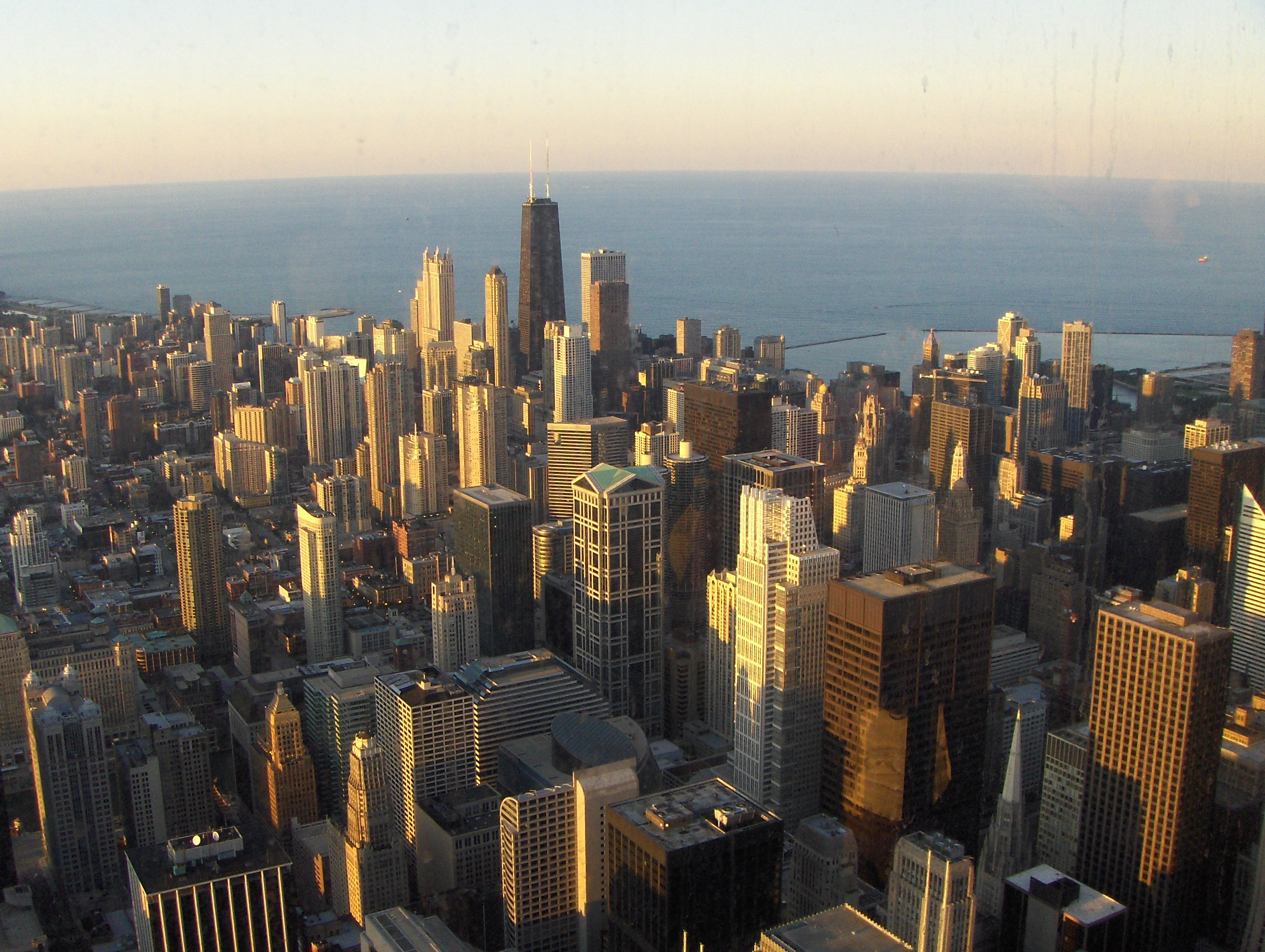 Chicago Downtown (view from Sears Tower)